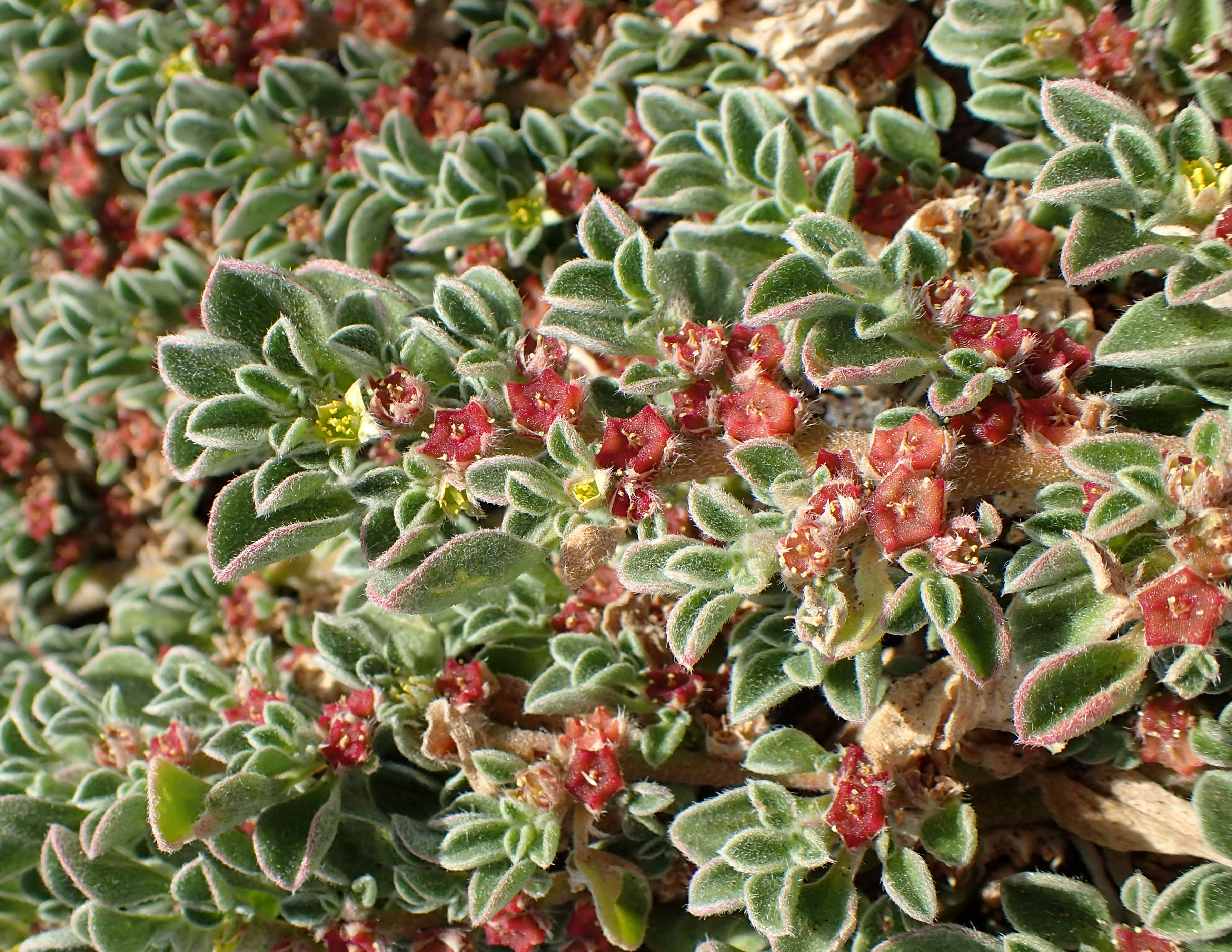 Aizoon canariense. Playa de las Teresitas on Tenerife, Canary Is.